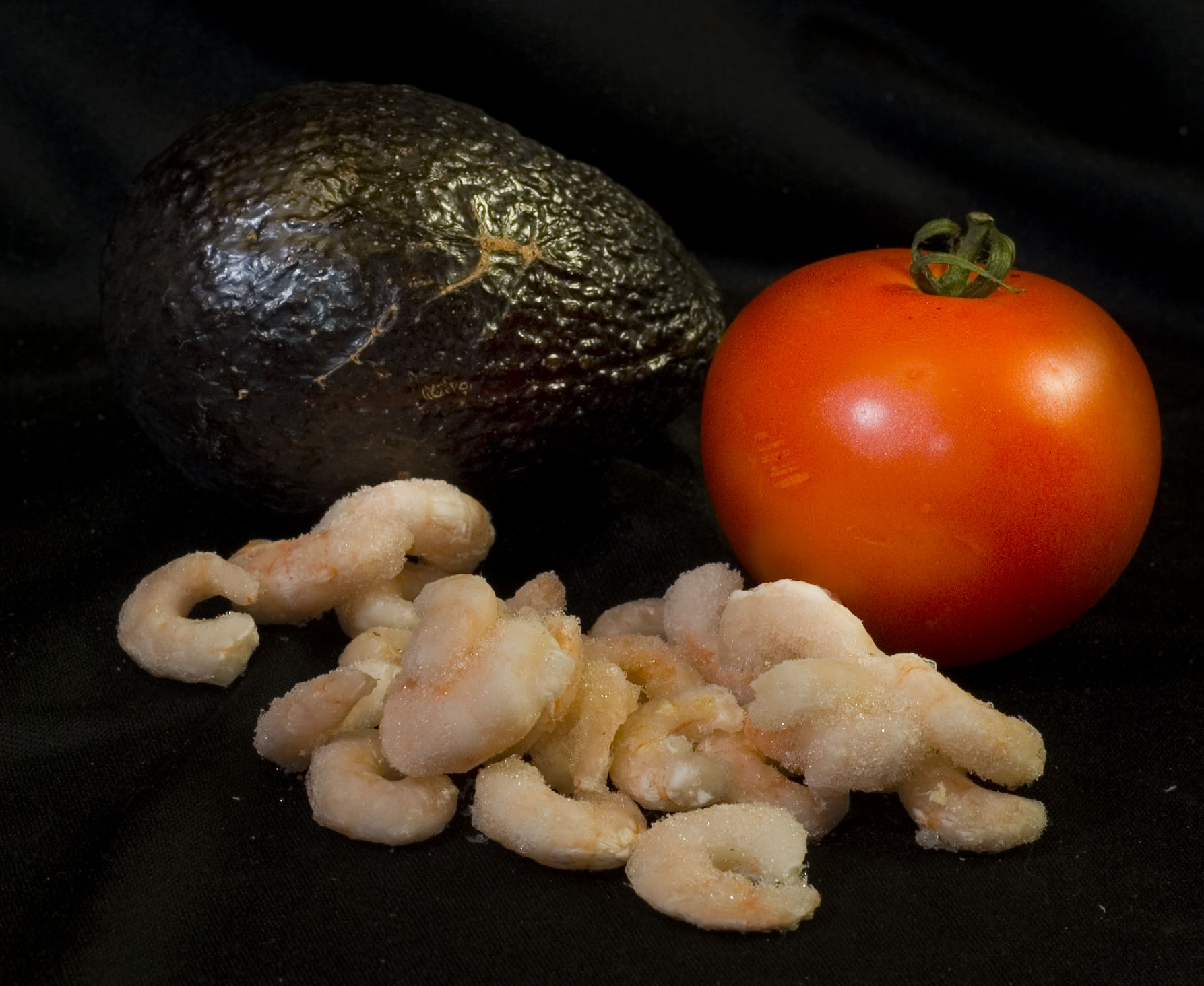 Modern day still life photo of the traditional item: Food.